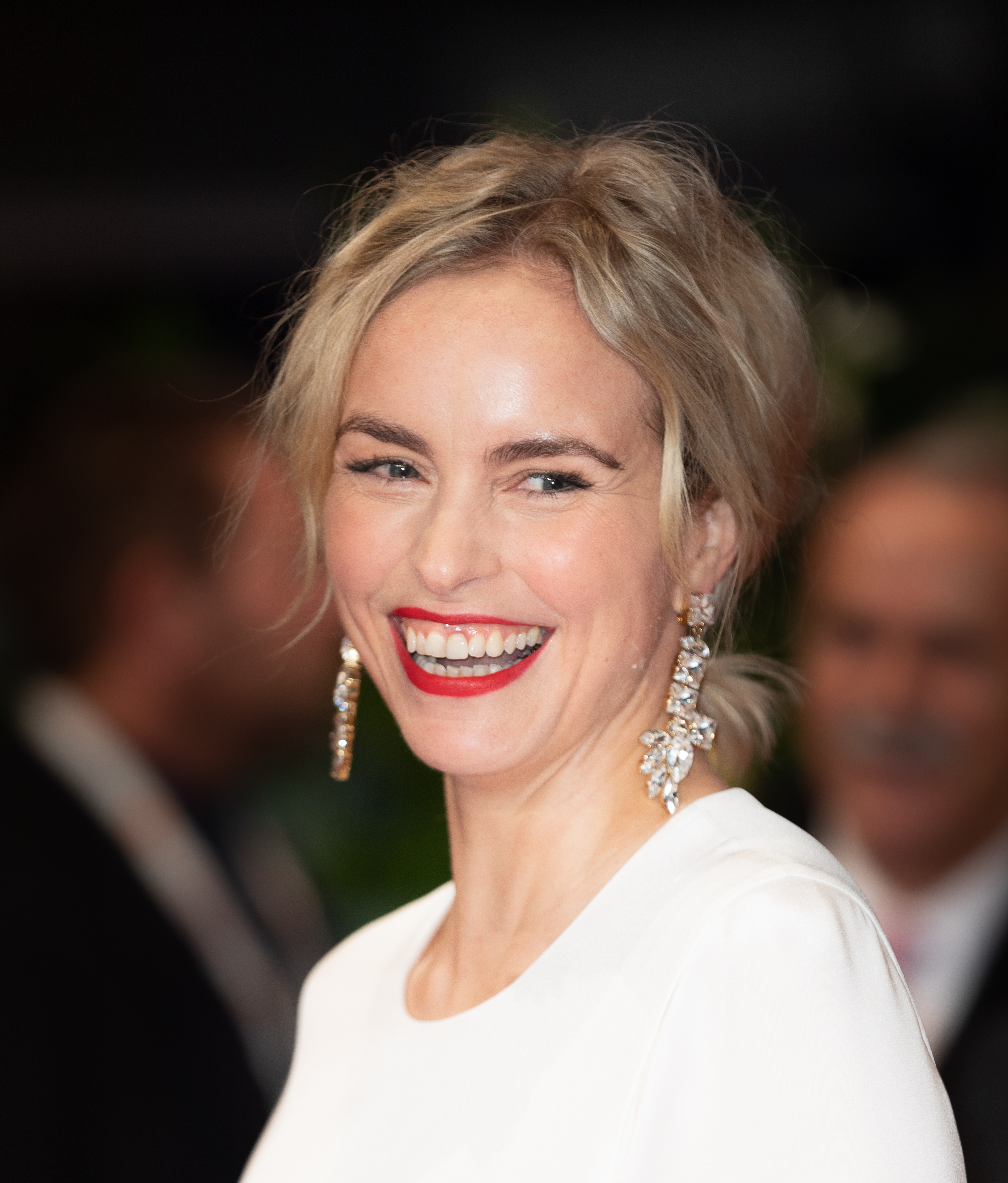 Nina Hoss at Berlinale 2020